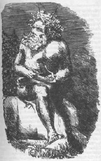 Leshiy by Yegor Kovrigin